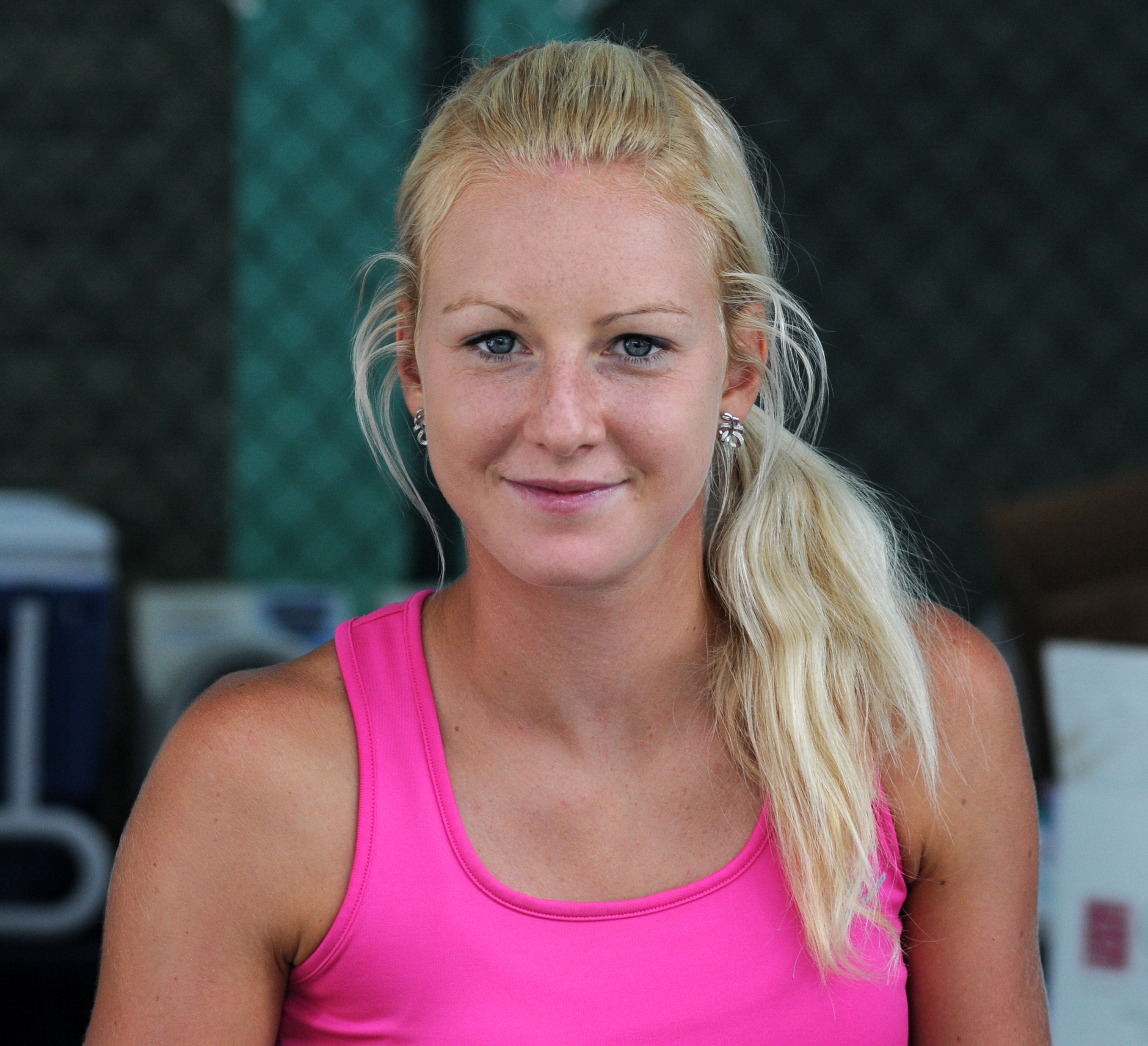 Mercury Insurance Open 2012